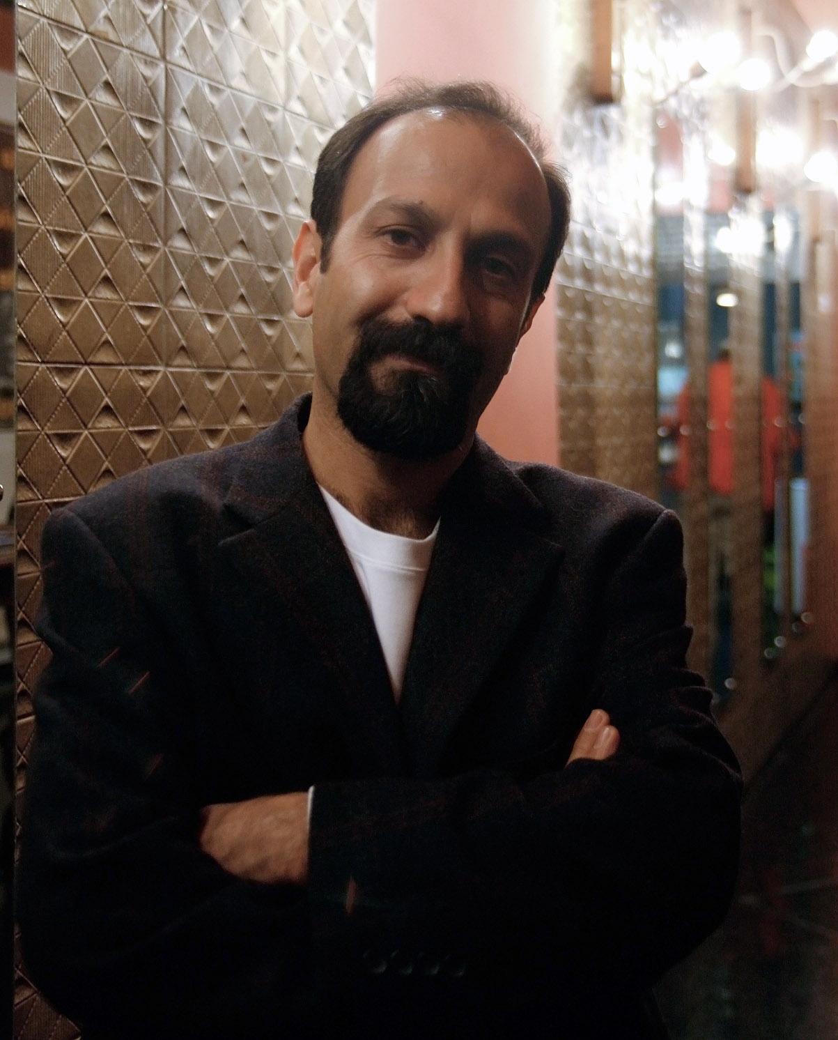 Asghar Farhadi at the screening of his movie About Elly during the Vienna International Film Festival 2009.